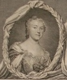 Johanna Magdalene of Saxe-Weissenfels (1708-1760), Duchess of Courland and Semigallia